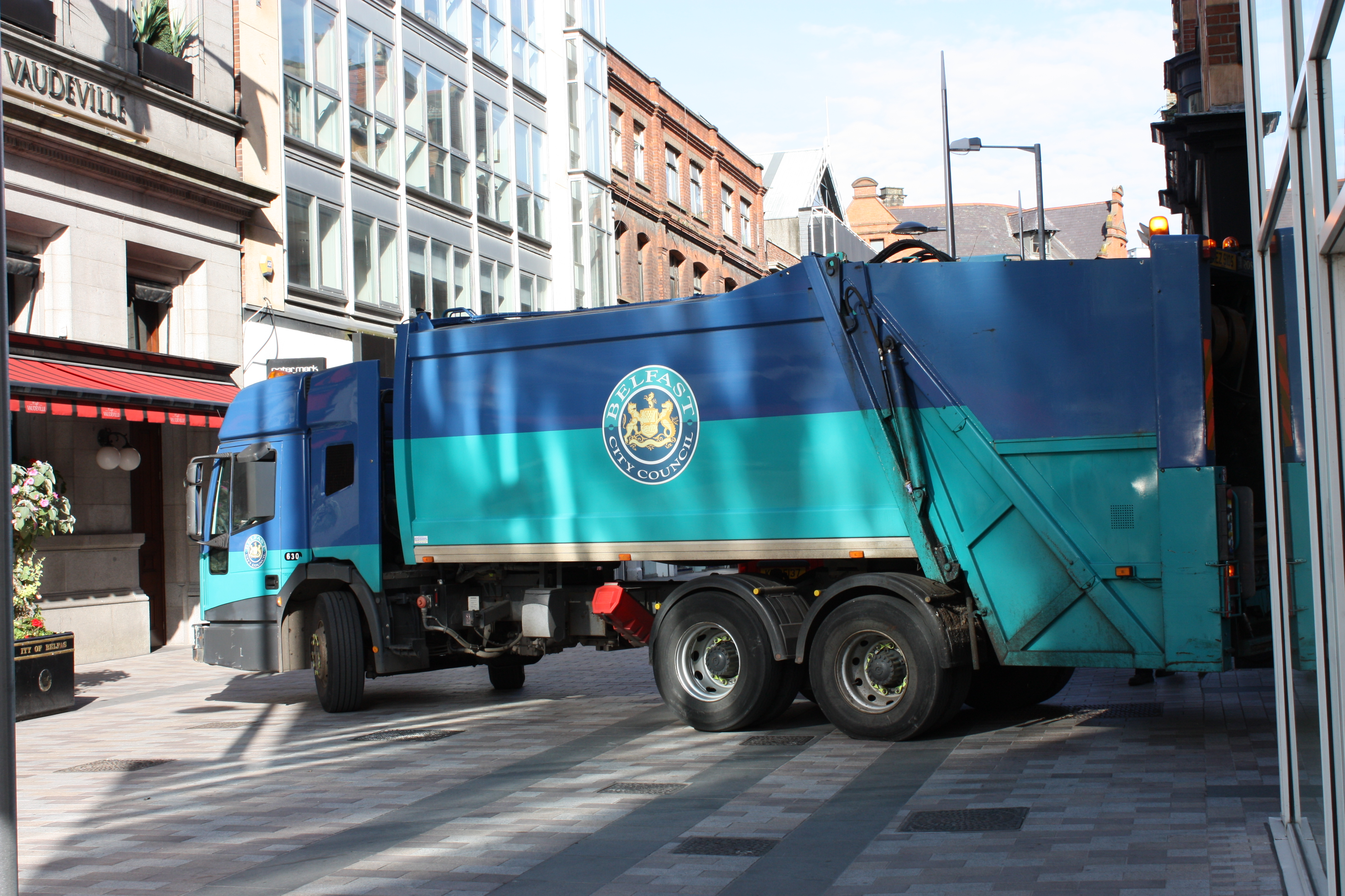 Belfast City Council bin lorry in Arthur Street, Belfast, Northern Ireland, October 2009